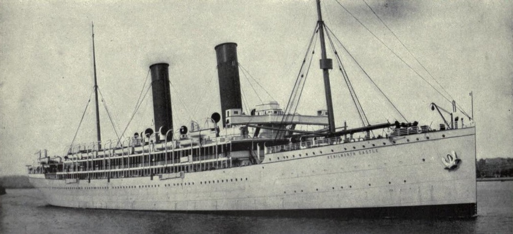 The steamer Kenilworth Castle was a passenger ship built by Harland and Wolff, launched 15 December 1903 and completed 19 May 1904 for Union-Castle Line.